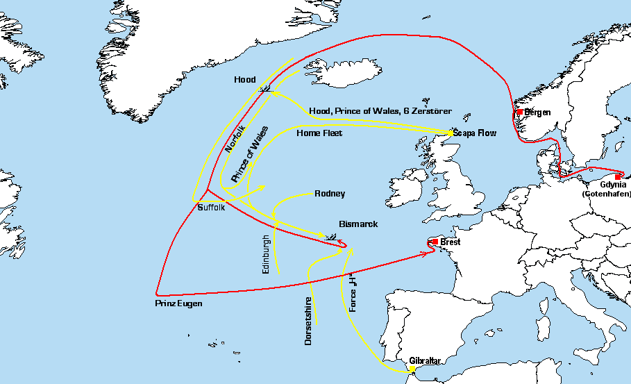 Map of the movements of the German (red) and British (yellow) ships during Operation Rheinübung, an attempted commerce raiding operation conducted by the battleship Bismarck in May 1941.